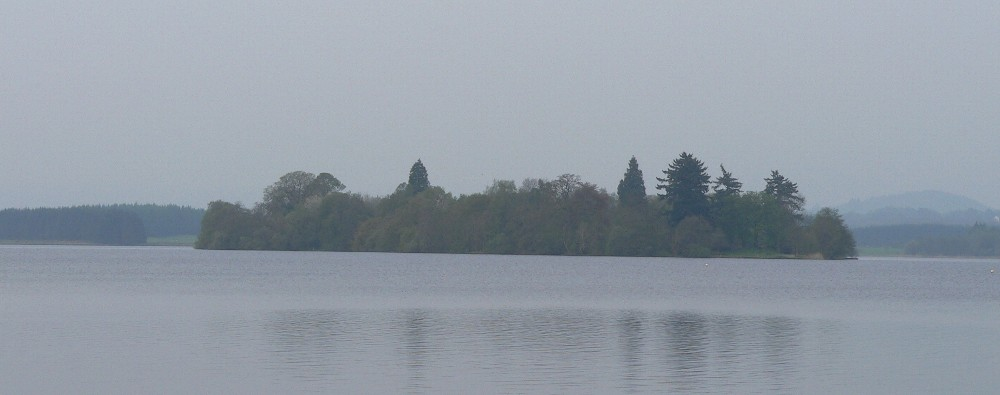 Inchmahome, Scotland